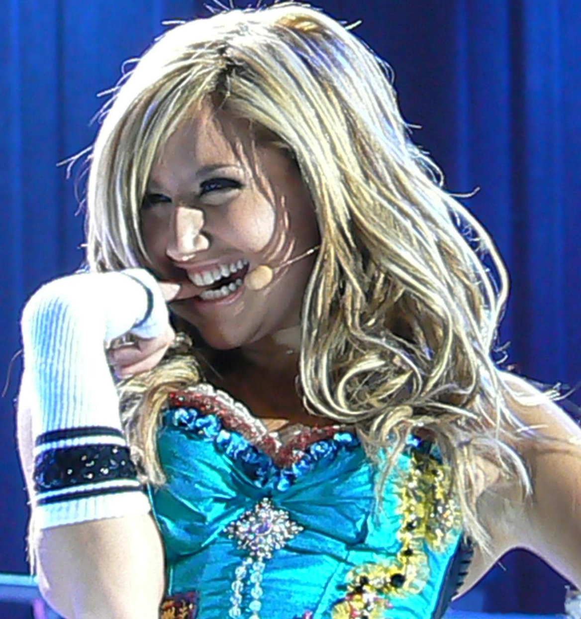 Ashley Tisdale in 2007.